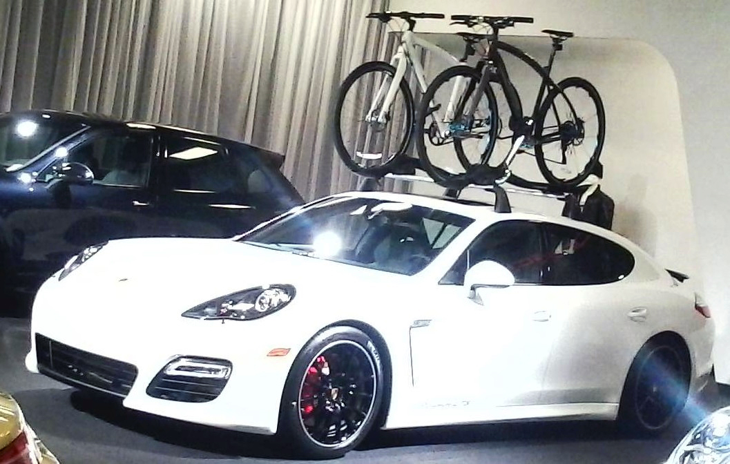 2013 Porsche Panamera photographed in Montreal, Quebec, Canada at the 2013 Montreal International Auto Show.